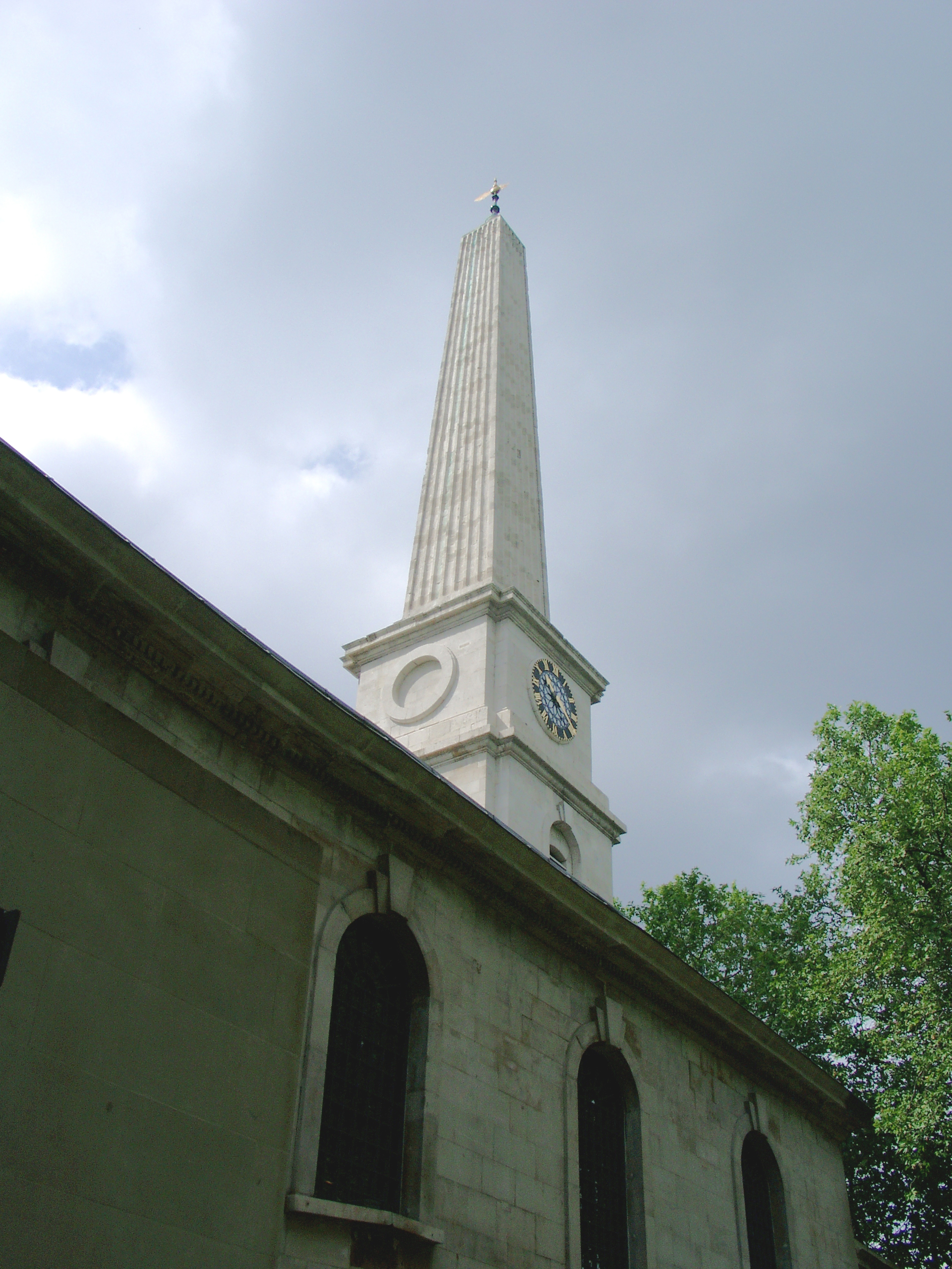 UBS and LSO Music Education Centre St. Luke’s in London